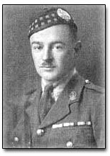 Portrait of George Brock Chisholm, former Director-General of World Health Organization, moderator of American Unitarian Association, Director General Medical Services in Canadian Army, Deputy Minister of Health (Canada). This portrait was taken when Chisholm was a member of the 28th Highlanders of Canada, at the end of World War 1. He is aged approximately 22 years old in this image. At the time of this image, Chisholm had attained the rank of captain.